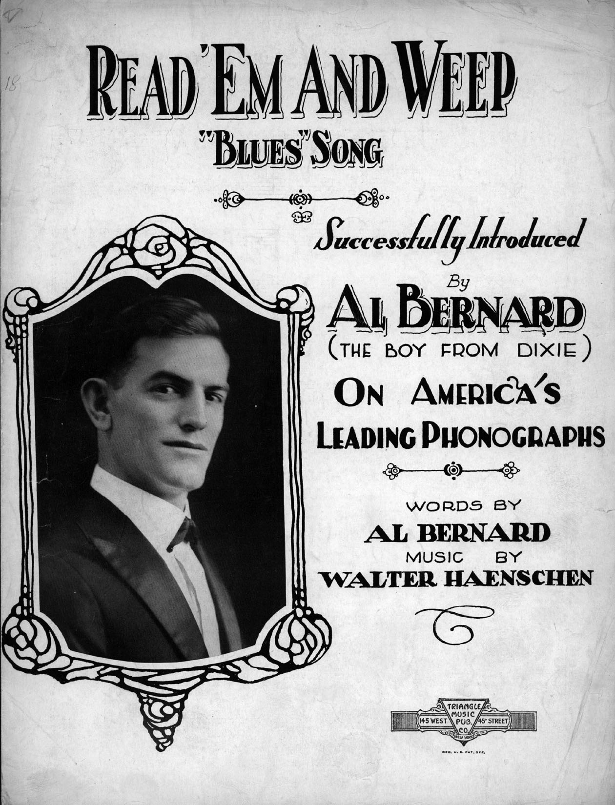 "Read 'Em and Weep" Blues song, sheet music cover, with photo of singer and Vaudeville star Al Bernard.